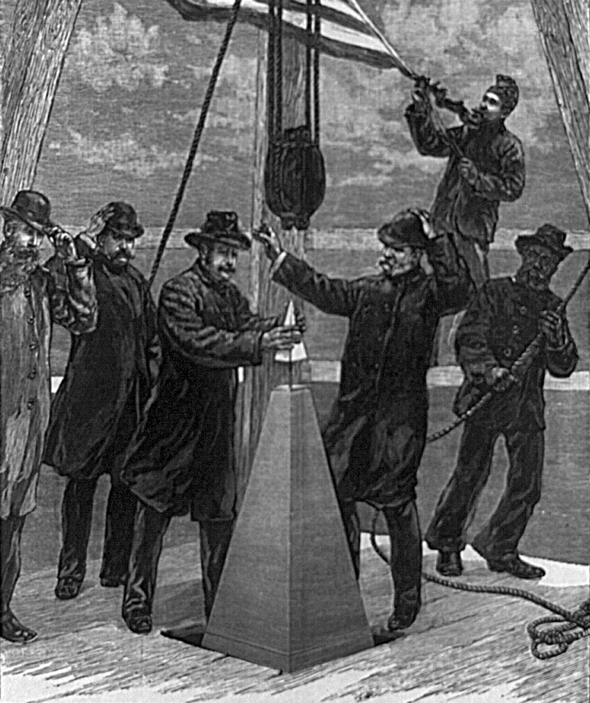 P. H. McLaughlin setting the capstone (aluminum apex) on the Washington Monument. Colonel Thomas Lincoln Casey has his hands up. An illustration from Harper's Weekly, December 20, 1884, page 839. Accompanying article on pages 844-5.